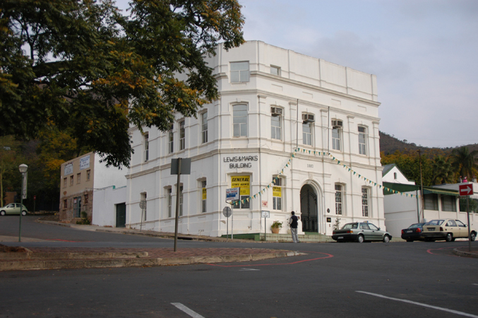 Lewis & Marks Building Barberton